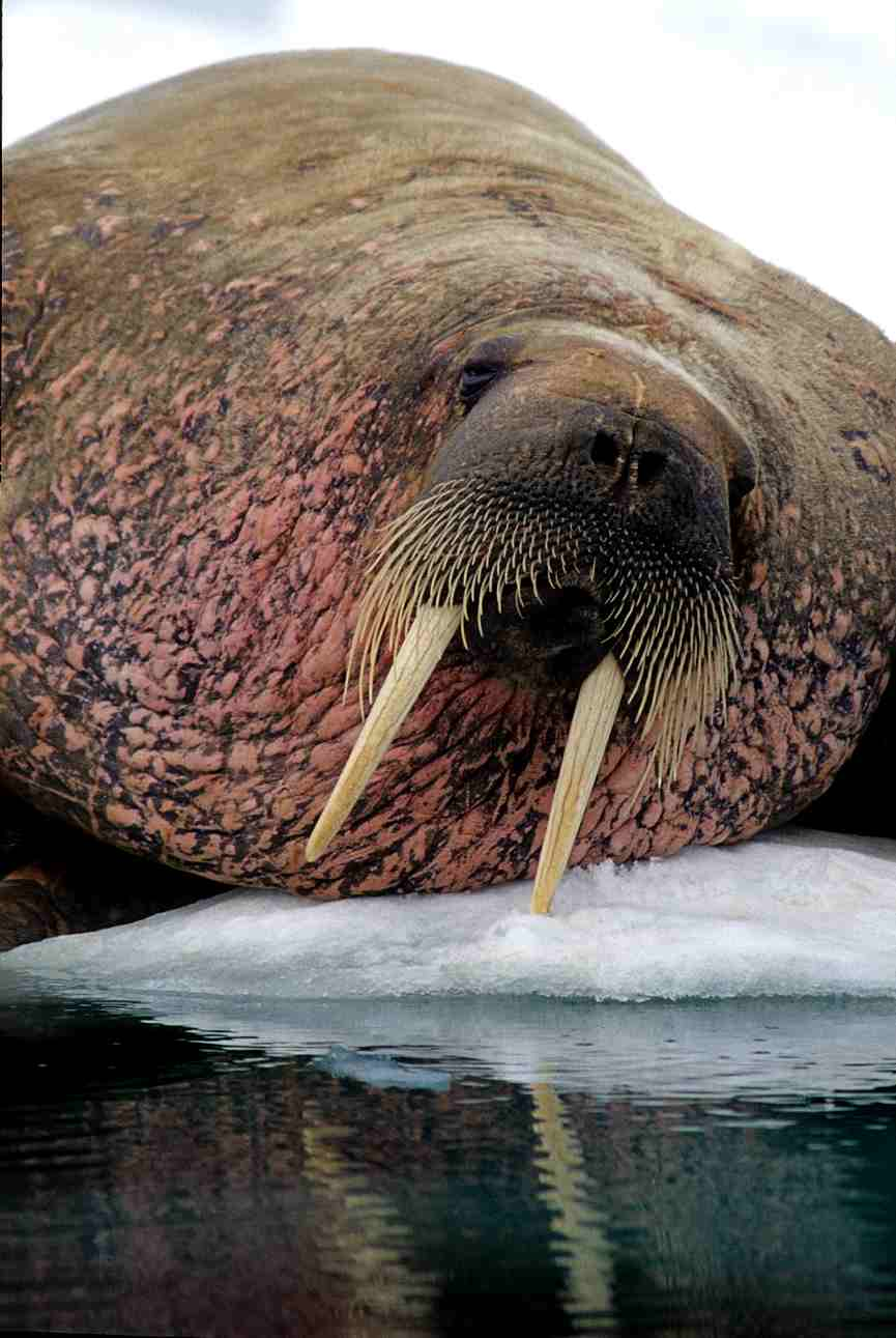 Atlantic walrus cow (Odobenus rosmarus rosmarus), on ice flow in Foxe Basin (Nunavut, Canada)